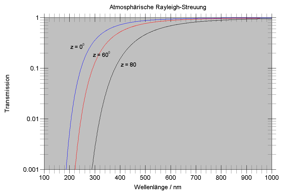 Atmospheric transmission due to Rayleigh scattering, in dependence on wavelength and angle of incidence